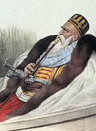 Ali Pasha, detail from "Ali Pasha of Janina Hunting on Lake Butrinto" by Louis Dupré.